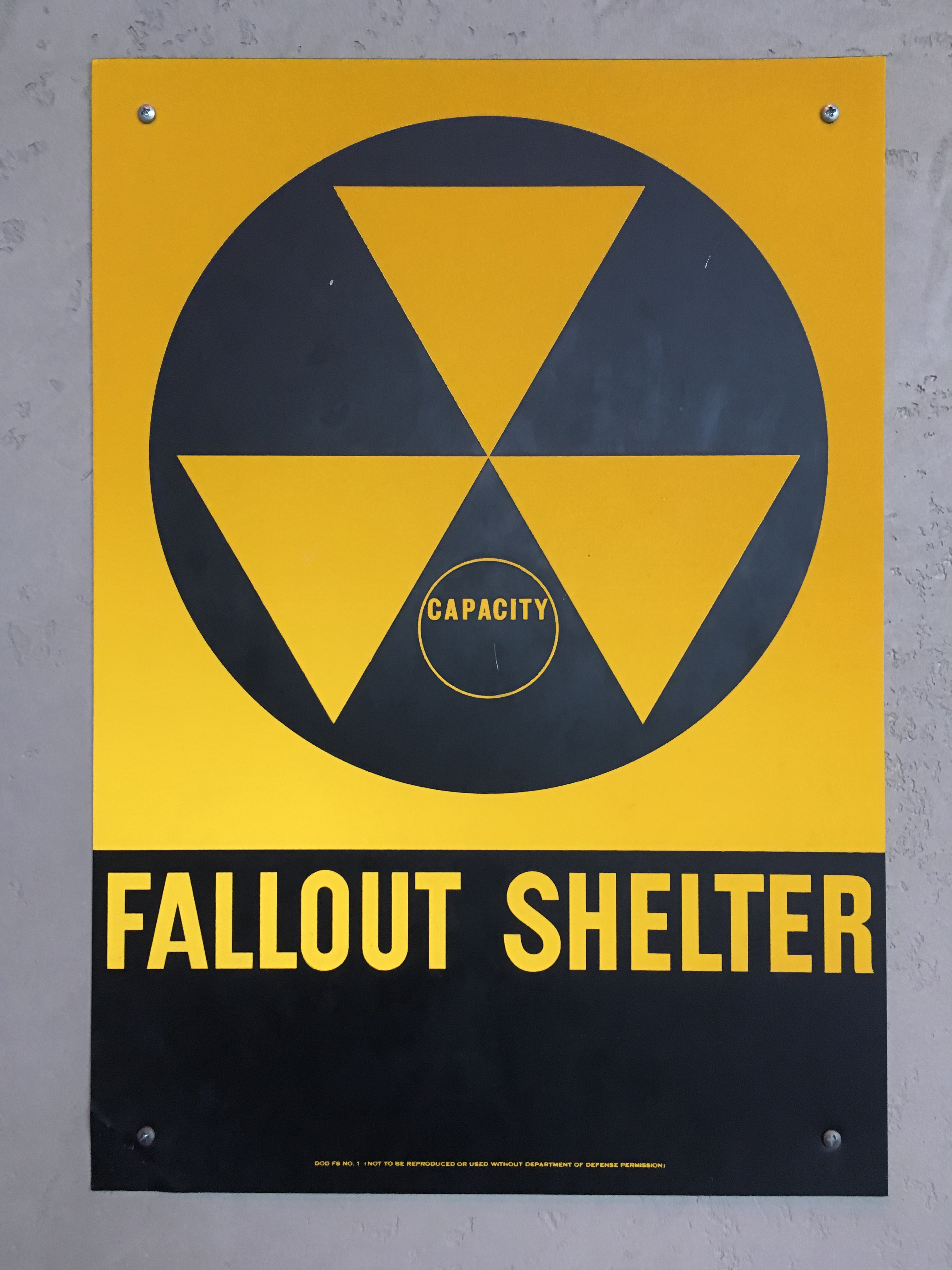 A fallout shelter sign in the United States of America.